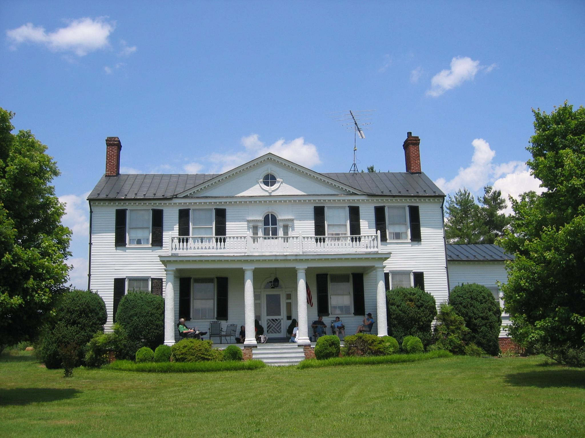 A view of the primary facade of Soldier's Joy, a plantation home in Nelson County Virginia.